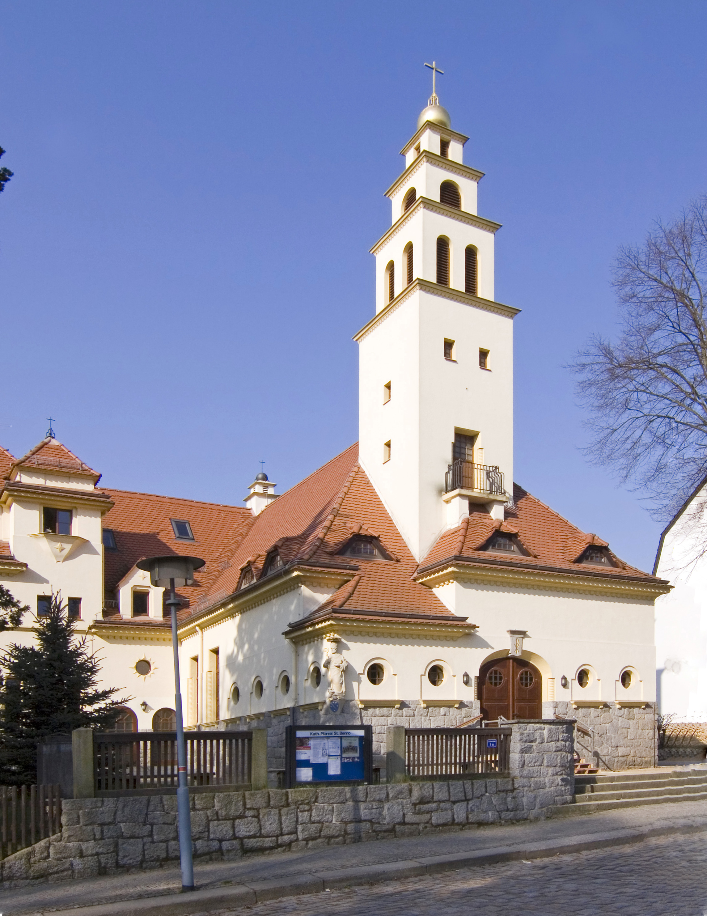 Bischofswerda, church St. Benno